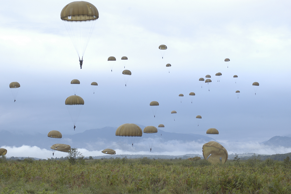 French military airborne jump